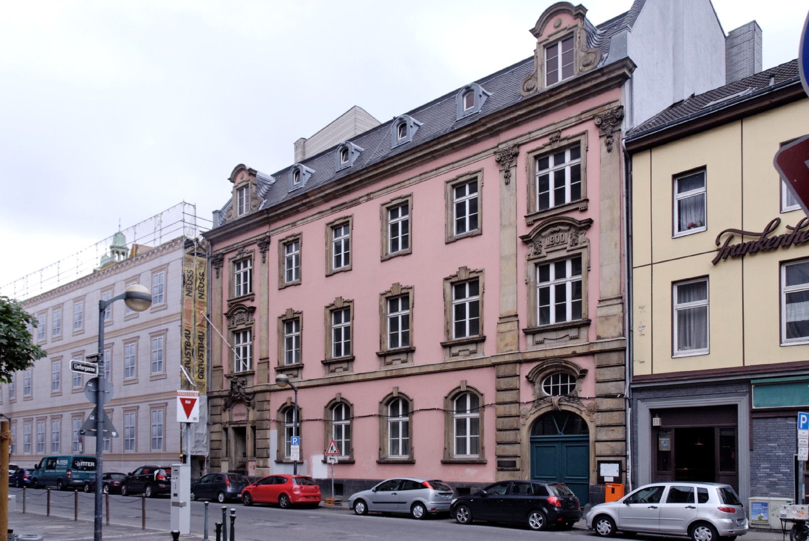 Former Jesuitenkloster, Mühlenstraße 29 (right hand) to 31 (left hand) in Düsseldorf-Altstadt, Germany